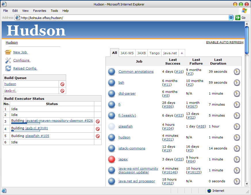 Hudson Screenshot